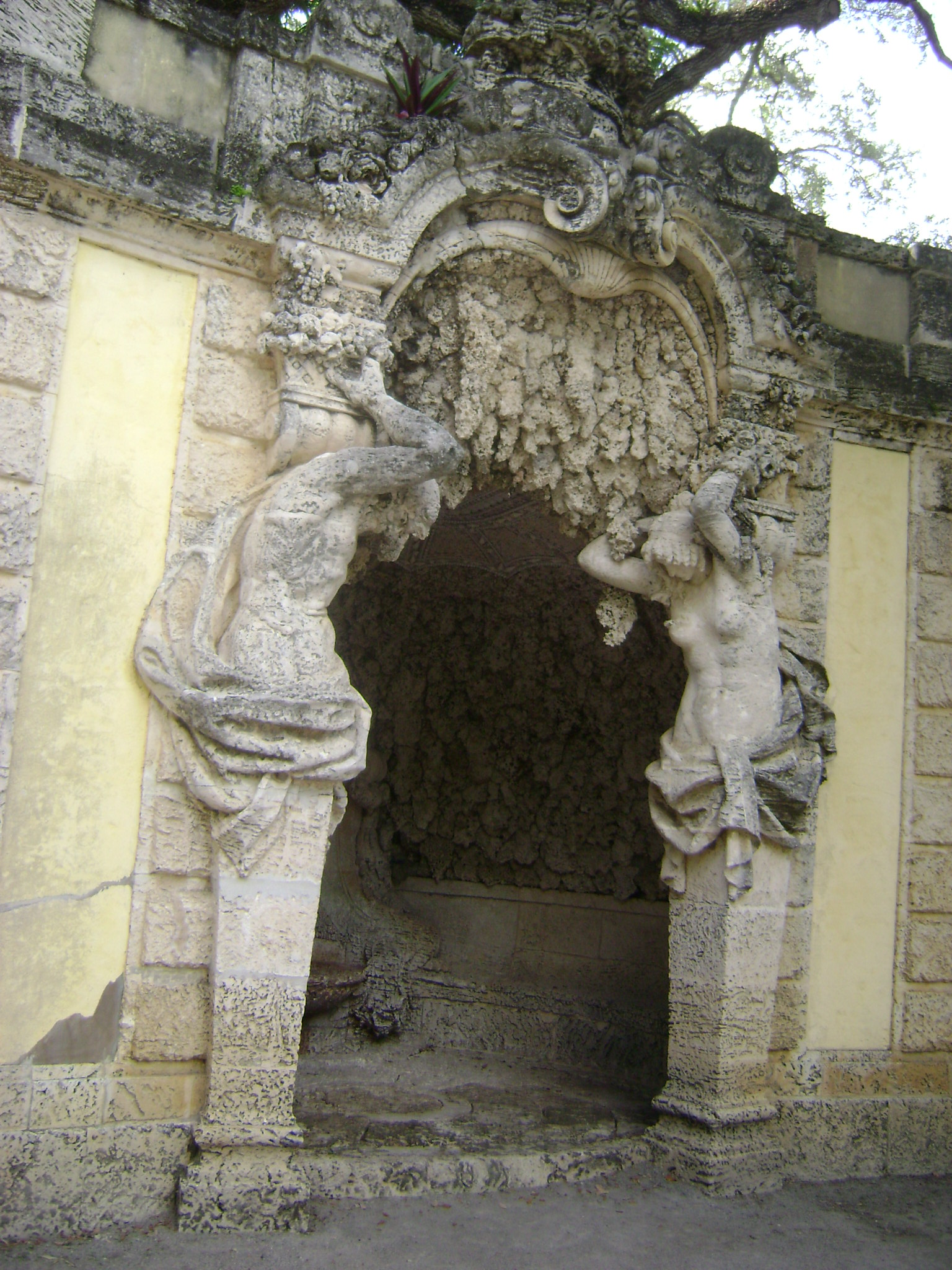 Grotto in Villa Vizcaya Garden. Villa Vizcaya estate 1914-16 — Miami Dade County, Florida